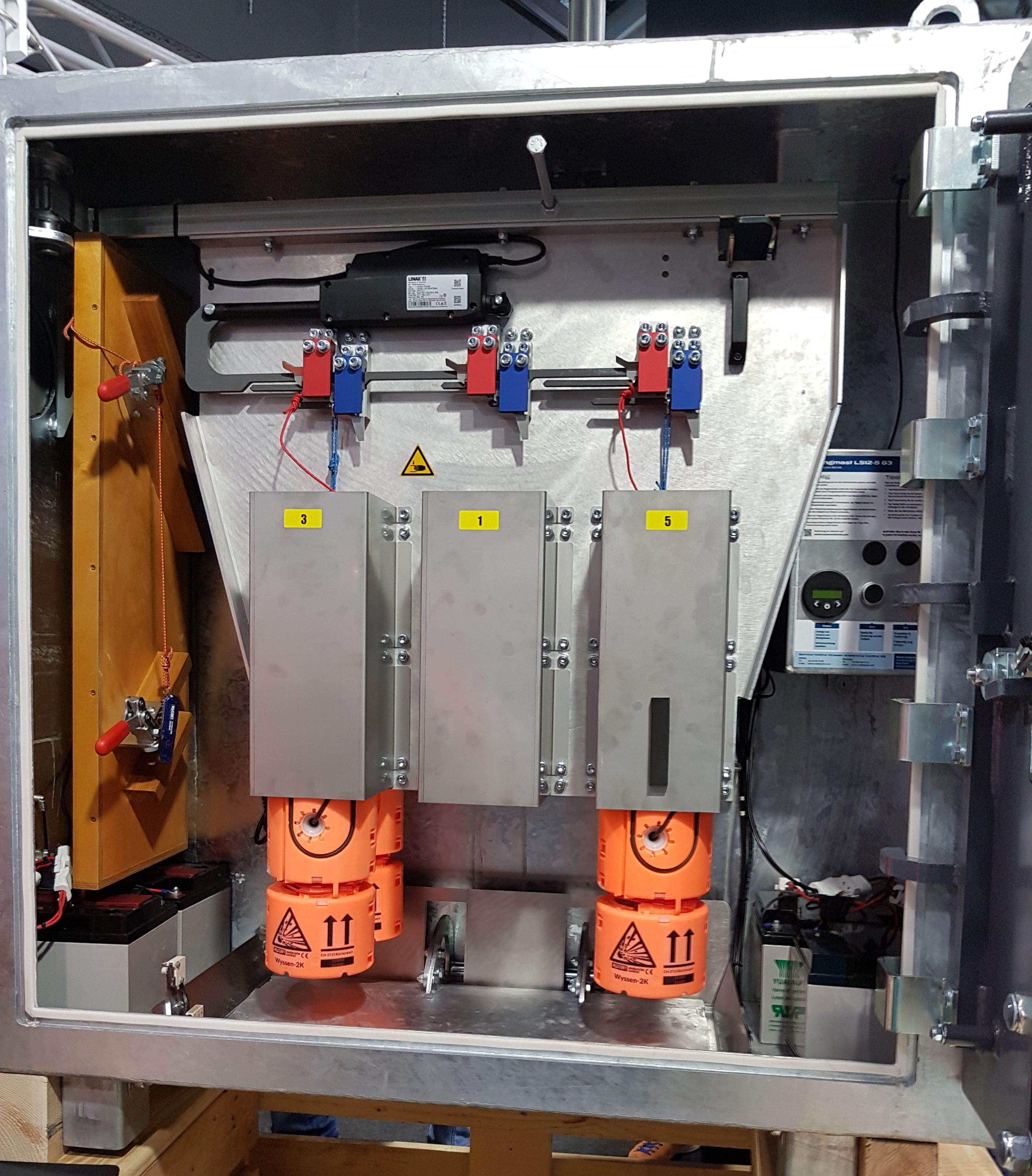 AVALANCHE TOWER “Mini” LS6-5 by Wyssen AG at the Interalpin, exhibition in Innsbruck in Tyrol, Austria.